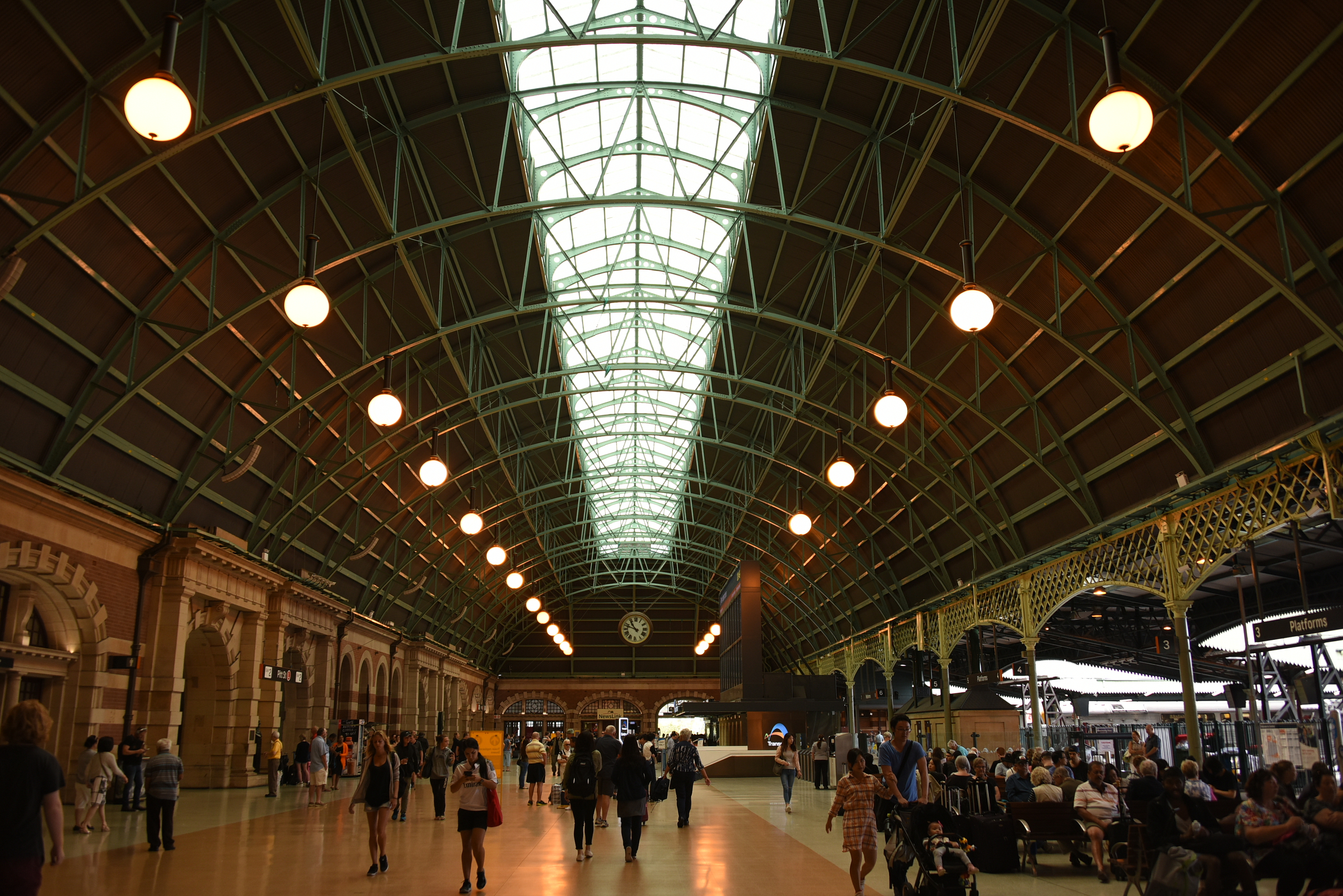 Grand Concourse, Central Railway, Sydney